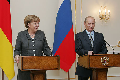 NOVO-OGARYOVO. Answering journalists' questions following talks with Federal Chancellor of Germany Angela Merkel.